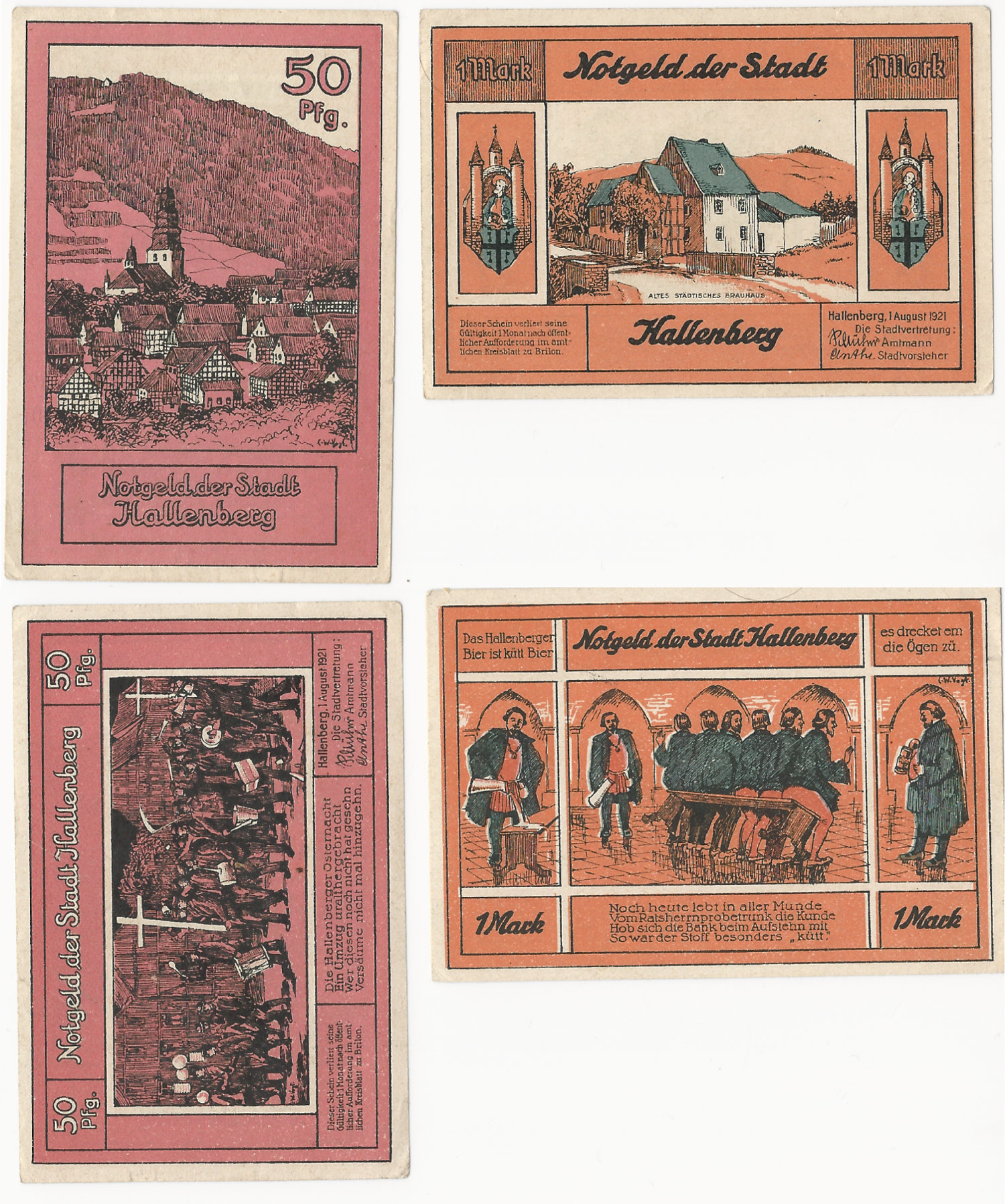 50Pfg and 1Mark Notgeld issued by Hallenberg in 1921